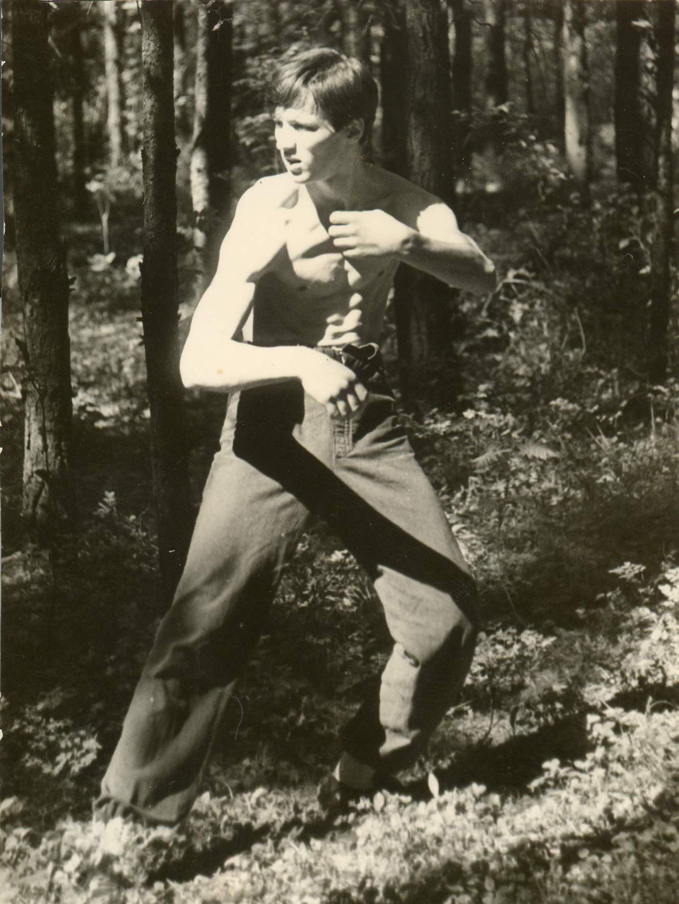 Thien Duyen, 1982. Tao "tigr".